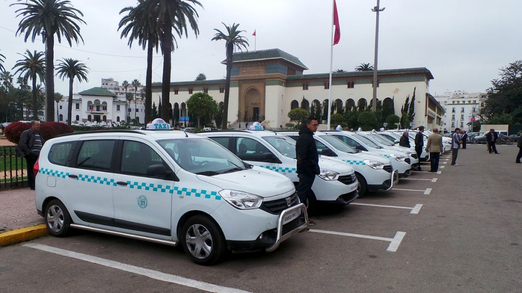 New taxi cabs ready to use in Morocco